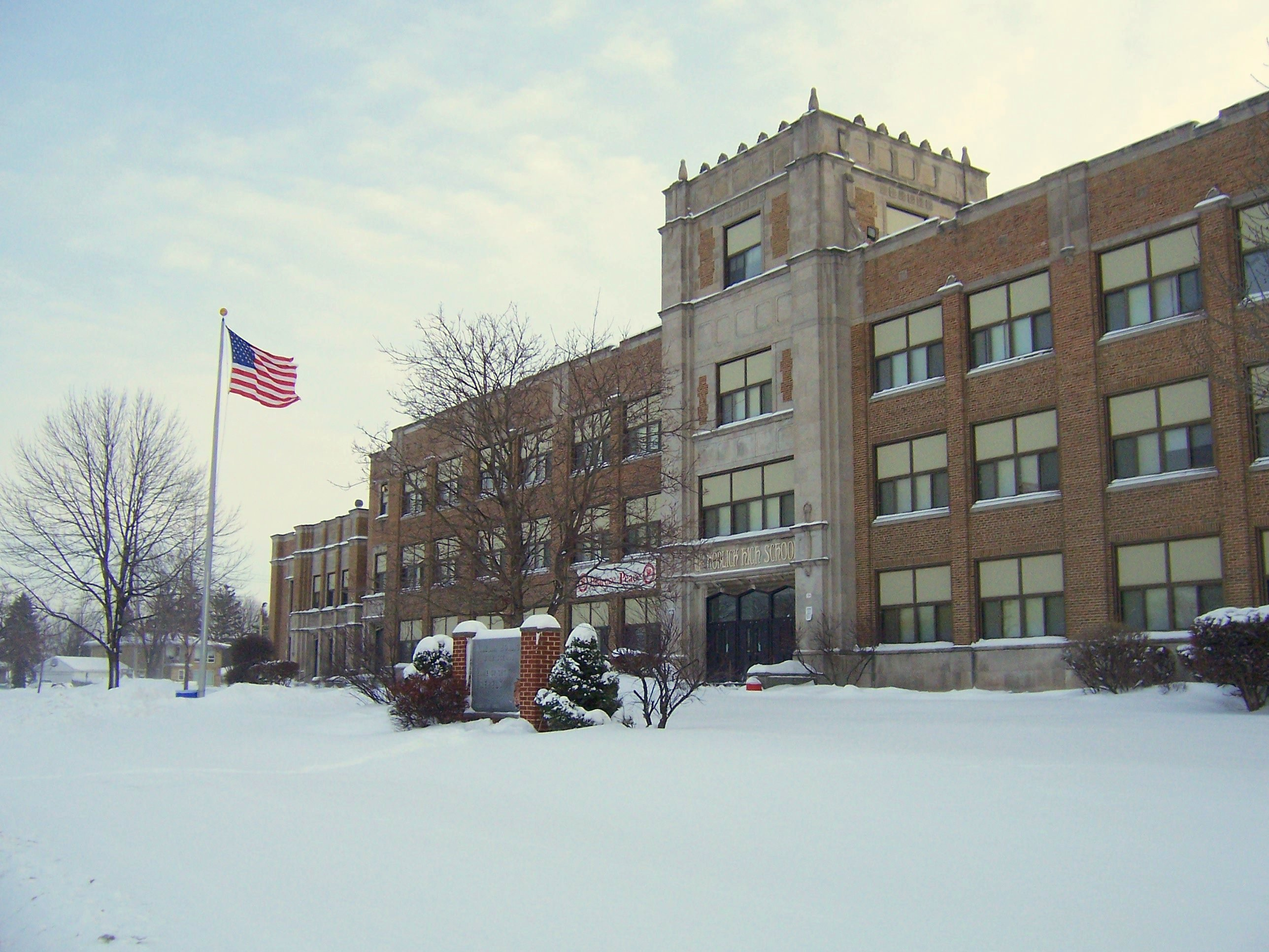 This is a picture of the North (and older) portion of William Horick High School.